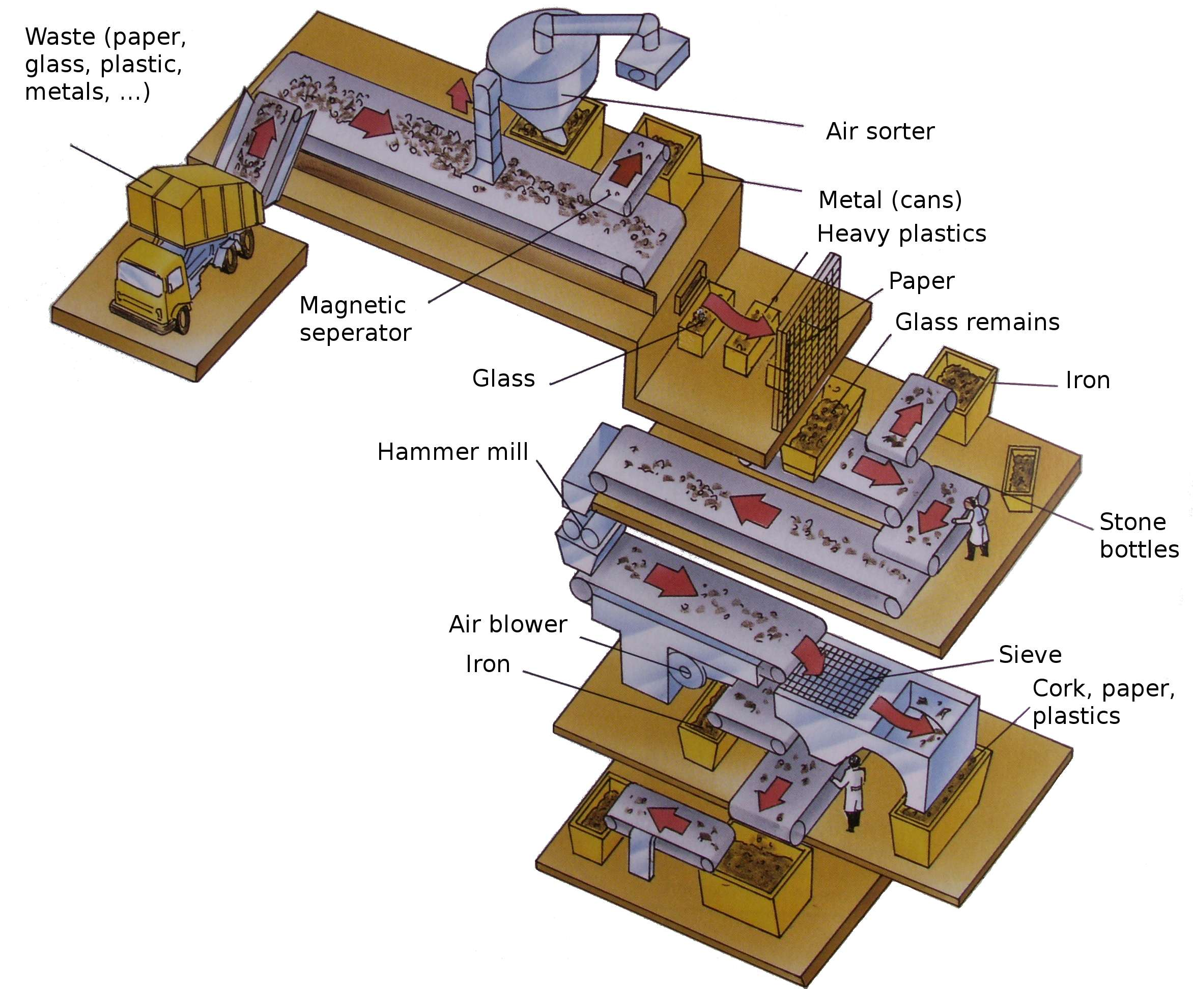 A schematic of a sorting machine for domestic waste, based on an image in the book "Energie en grondstoffen in de toekomst" by Robbin Kerrod. The machine can be used in countries where non-organicly degradable, unsorted (at the source) domestic waste is placed in trash bags and picked up by the local garbage men. Permission was granted by Robin Kerrod for the use of the image.